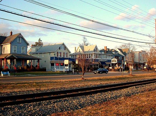 View of northern part of Palmyra, NJ near border with Riverton; shops along West Broad Street looking from across RiverLINE tracks.